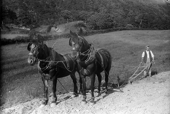 1 negative : glass, dry plate, b&w ; 12 x 16.5 cm.